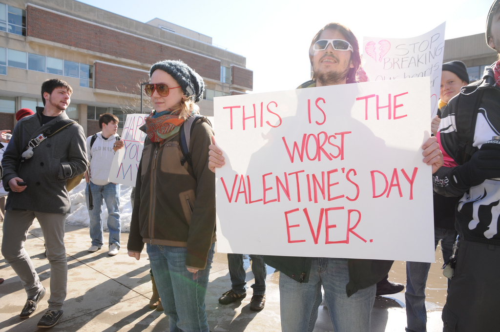 Rally for worker and student rights, organized by the Milwaukee Graduate Assistants Association at Spaights Plaza on the University of Wisconsin-Milwaukee campus, Monday, February 14, 2011. Students and workers at a protest rally respond to Wisconsin Governor Scott Walker's proposal to erode pay, benefits, and rights of state employees, including teachers, researchers and working students, to fill a state budget gap.